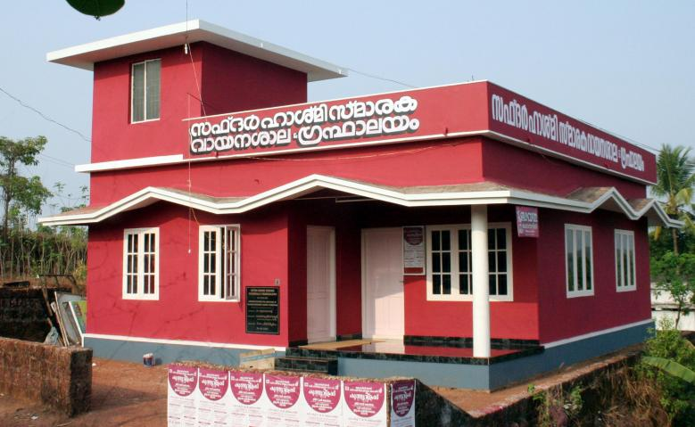 Safdarhashmi Grandhalayam,Thayampoil